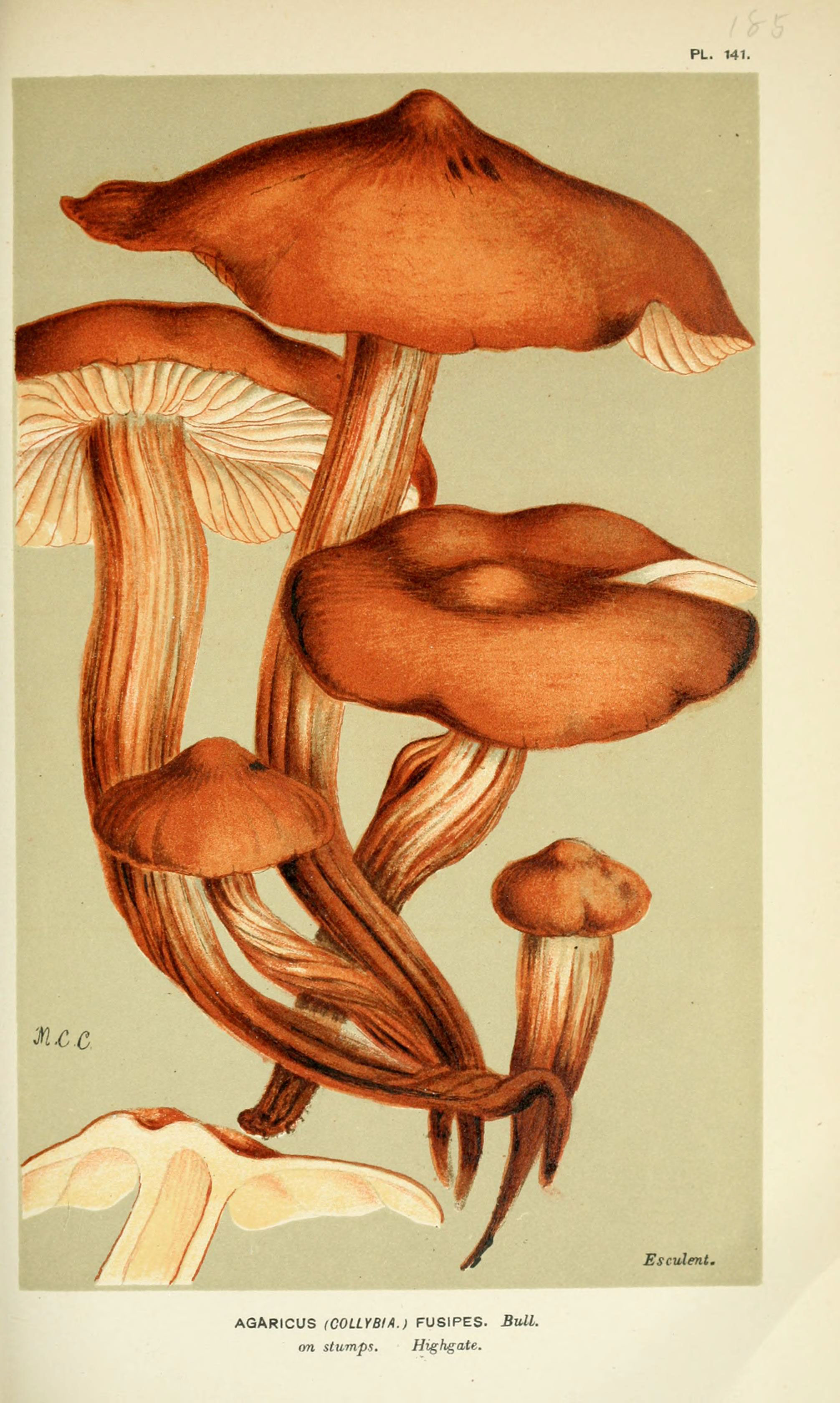 PL. 141. Esculent. AGARICUS (COLLYBIA.) FUSIPES. BiM. on stumps. Highgate.